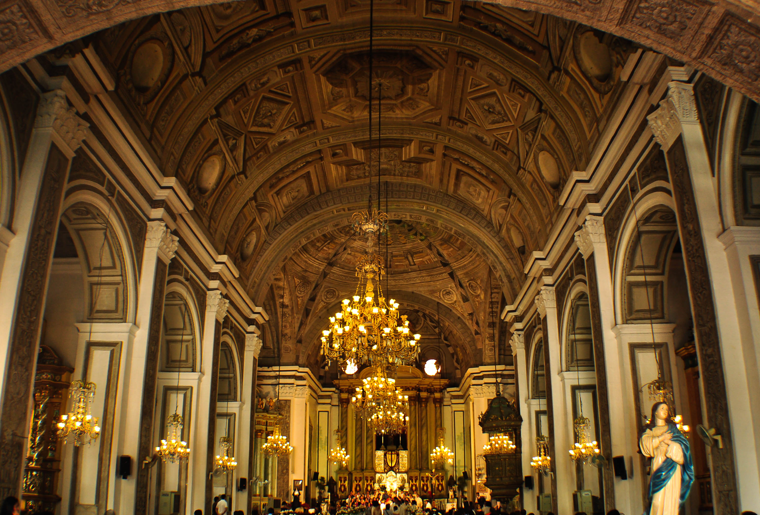 church ceiling of Sun Agustin